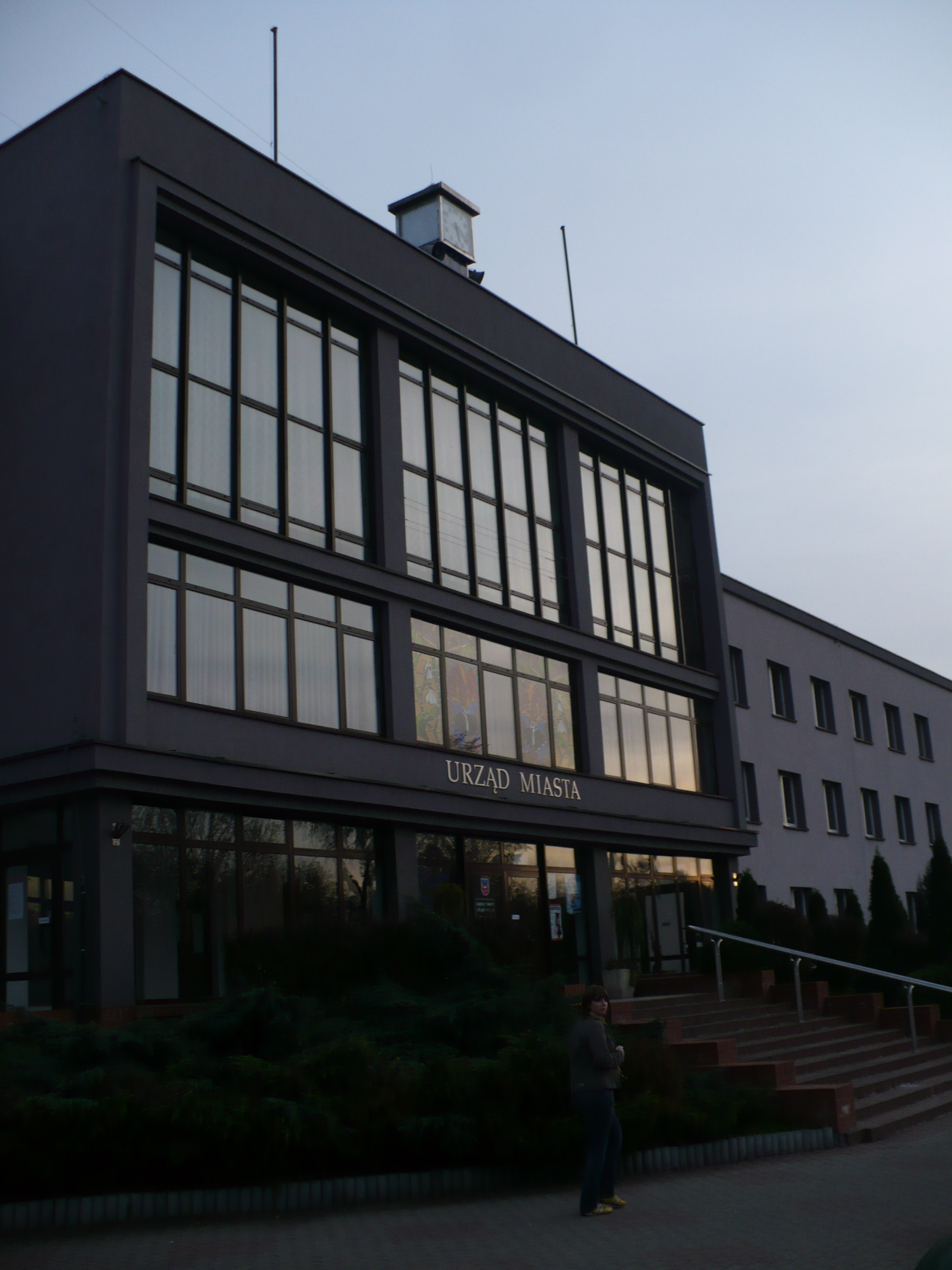 Myszków Town Hall